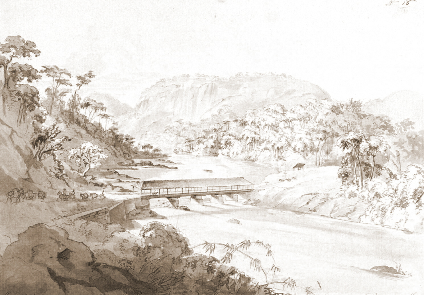 The Paraíba do Sul river in Brazil, in the border between Rio de Janeiro and Minas Gerais